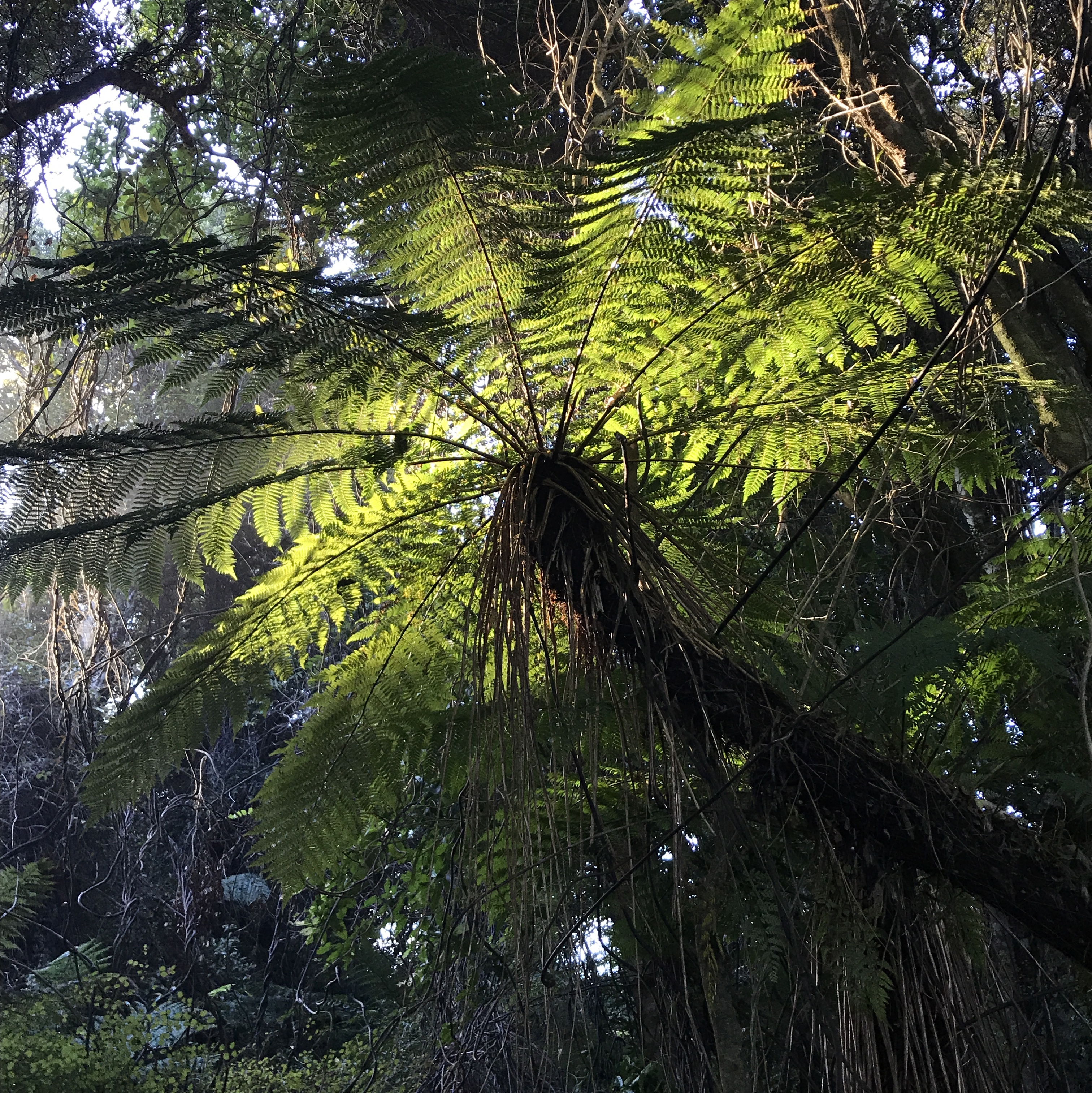 Tree Fern, Hump Ridge Track, Fiordland National Park, South Island, New Zealand. Photo by Nick Longrich